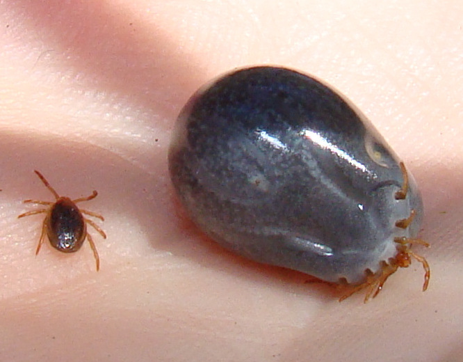 Two ticks of the species ixodes holocyclus, picked off koalas in the Koala Hospital in Port Macquarie, New South Wales, Australia. The small tick had not yet started feeding, while the other had probably been at work for a couple of days. The amount of blood inside the larger tick is probably around 5 millilitres.